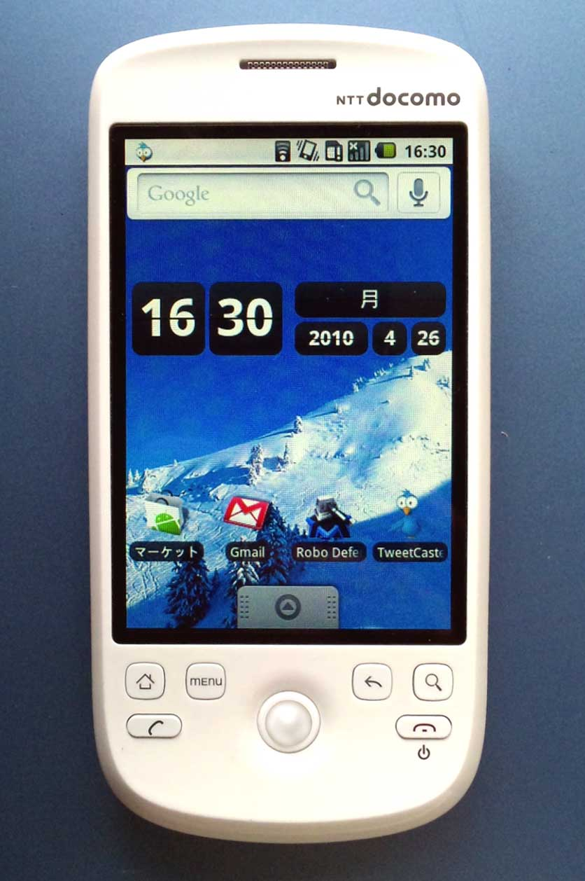 docomo HT-03A HTC Magic OS1.6